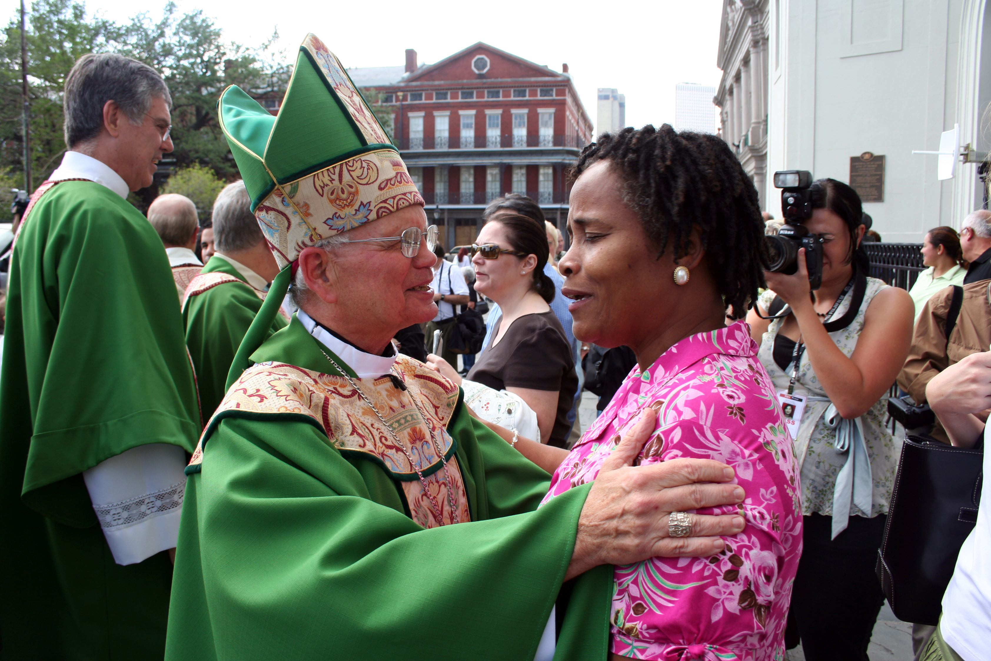 New Orleans, LA, October 2, 2005 -- Archbishop Alfred Hughes greeted city parishioners after the first services at St. Louis Cathedral since Hurricane Katrina forced New Orleans to evacuate one month ago. Photo by Greg Henshall / FEMA